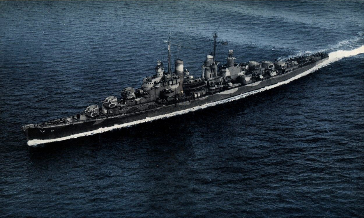 The U.S. Navy light cruiser USS San Juan (CL-54) underway at sea in 1942. She is painted in Camouflage Measure 12 (Modified).